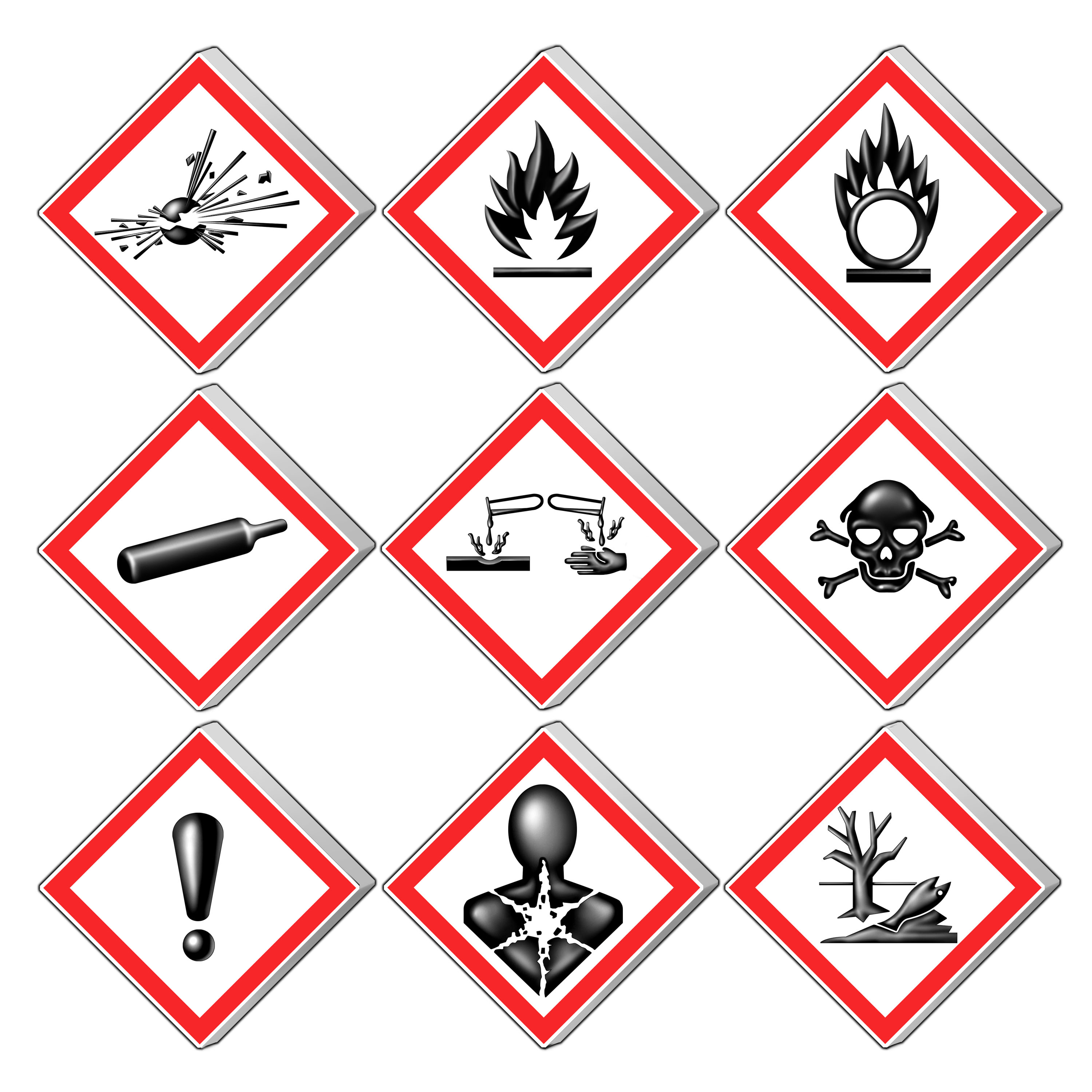 Pictograms featuring all the Globally Harmonized System of Classification and Labeling of Chemicals.